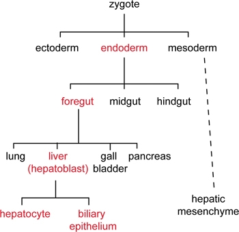 The cell lineage steps during hepatic development (red) from uncommitted endoderm to functional adult hepatocytes and biliary epithelium.